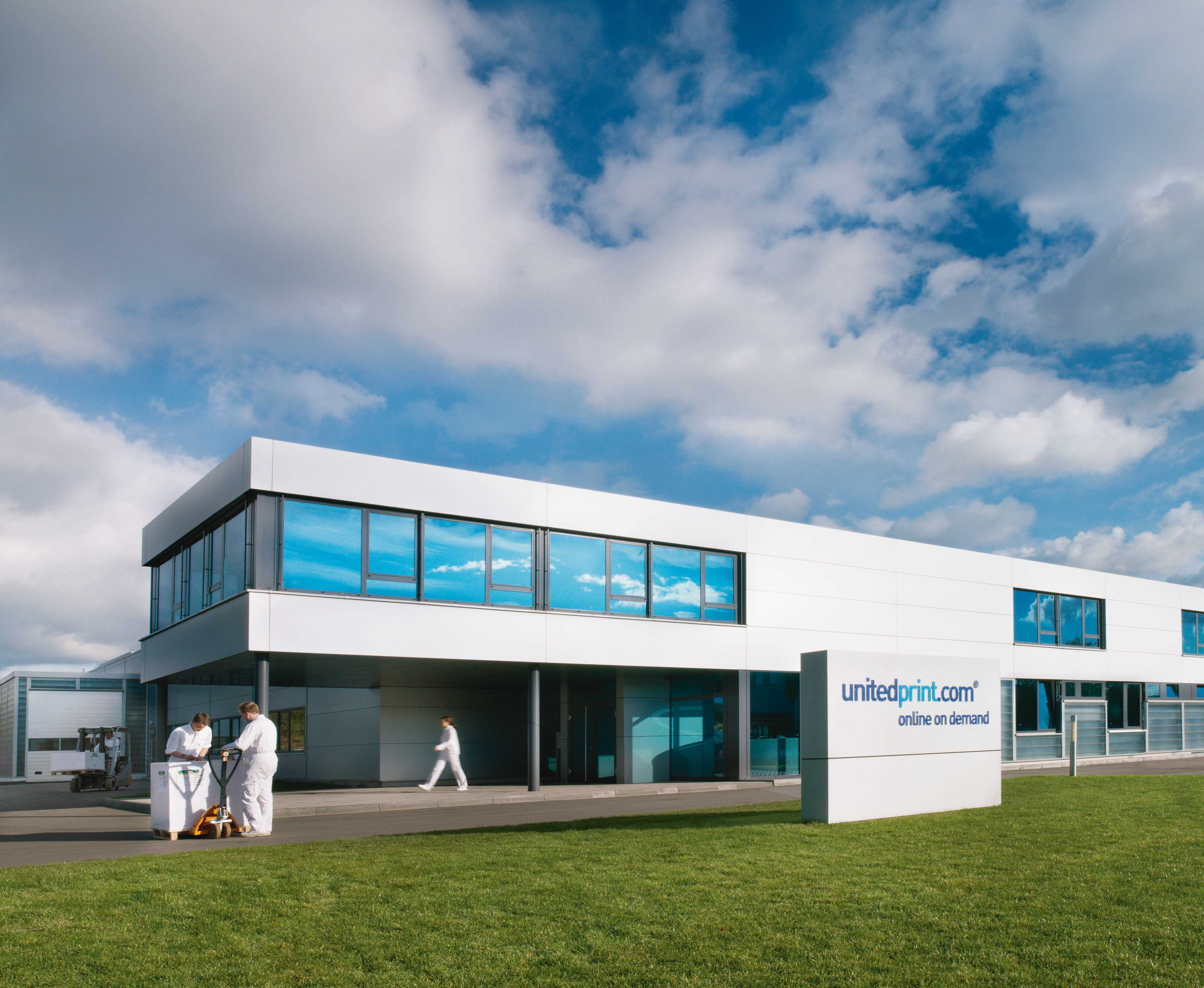 place of production SE